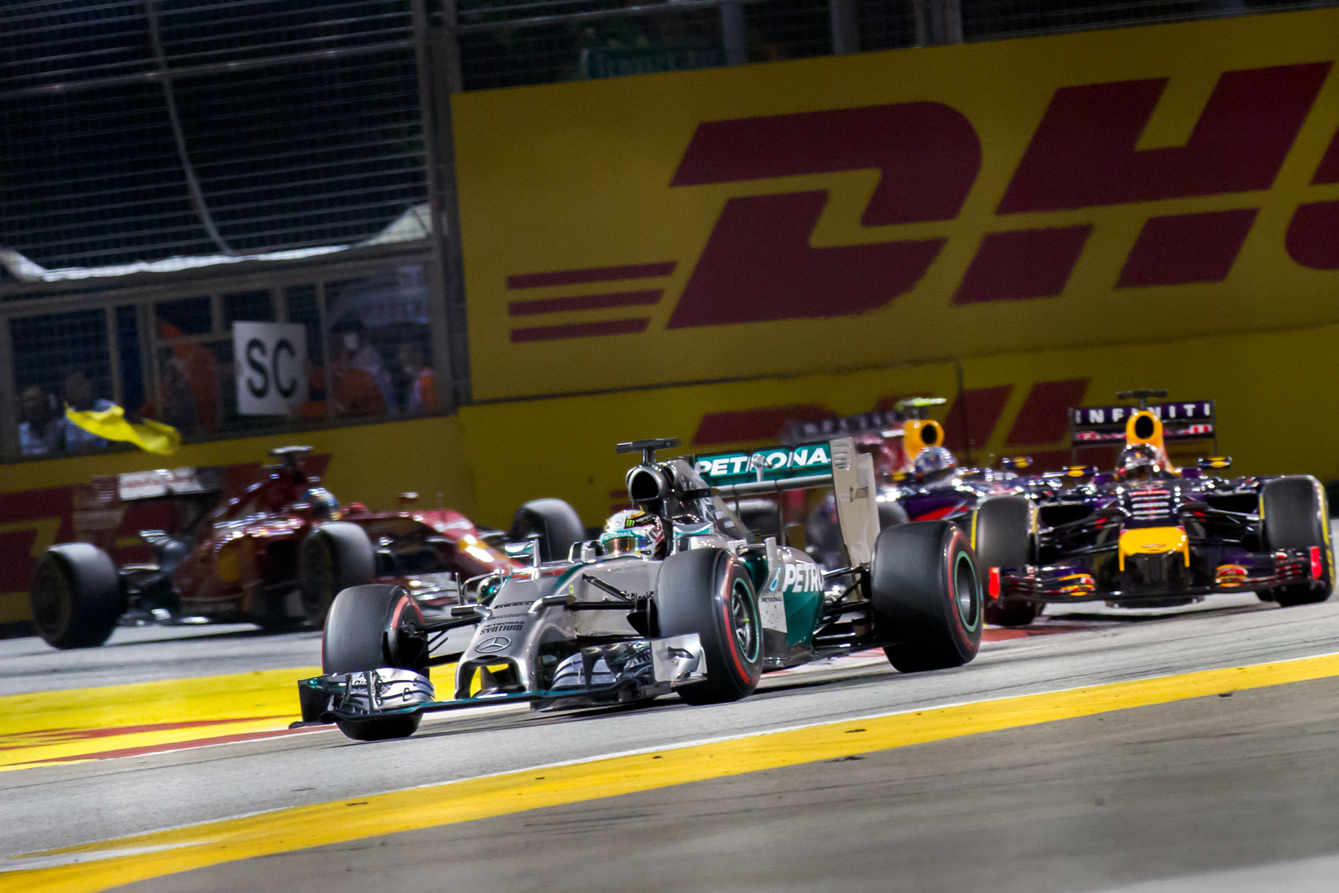 Formula One 2014 Rd.14 Singapore GP: Lewis Hamilton (Mercedes GP)